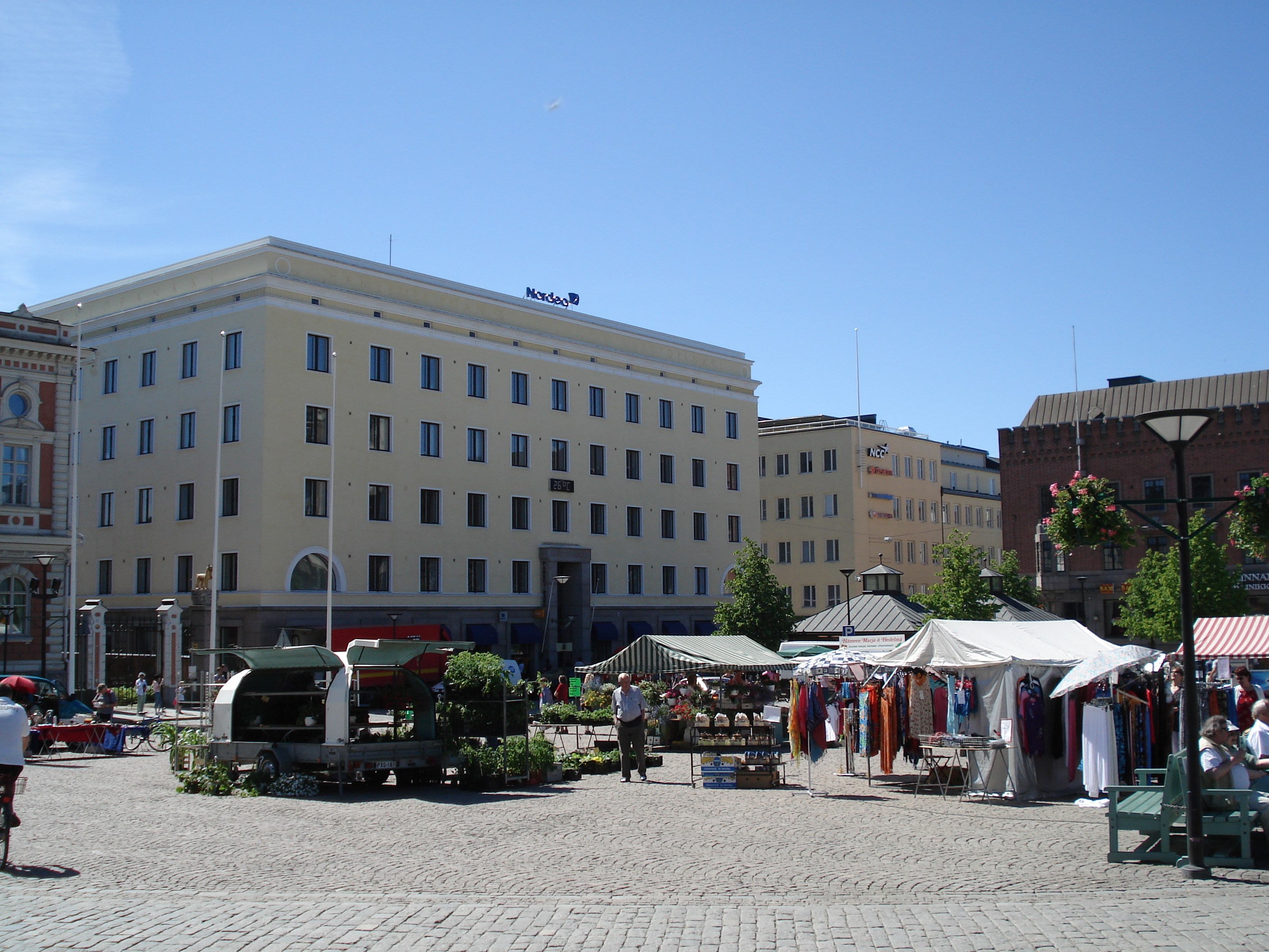 Market square in Hämeenlinna, Finland.